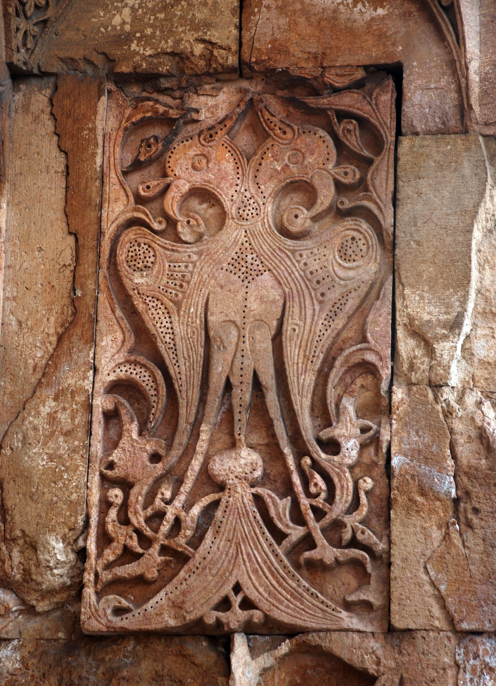 Divriği, west portal mosque, bird on right side